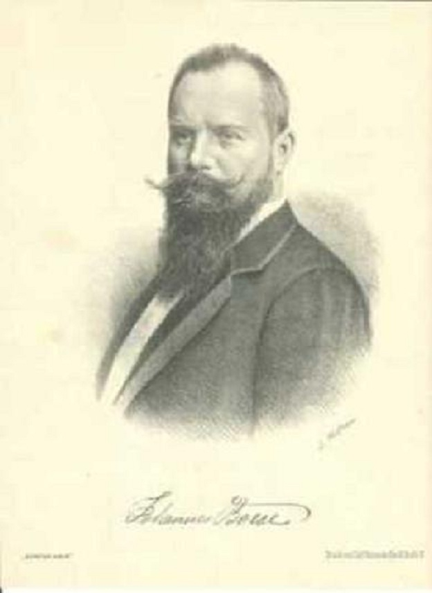 Johannes Boese (sometimes Johannes Böse) (1856−1917), German sculptor.